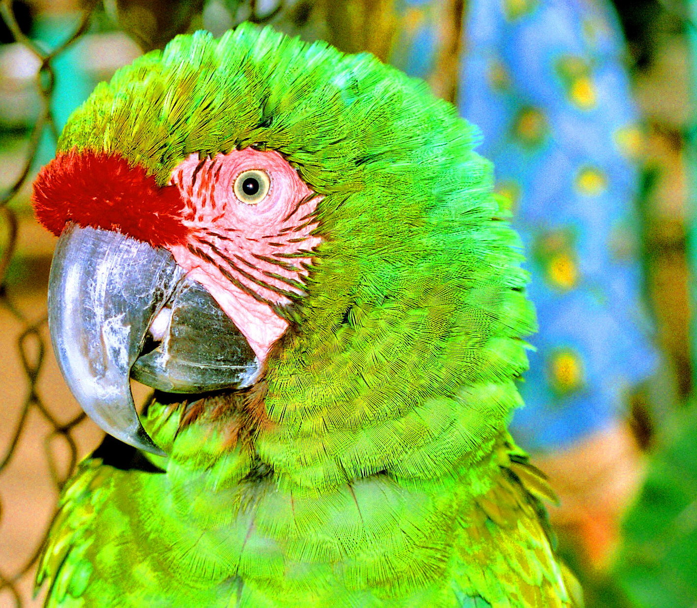 Military Macaw (Ara militaris). Details of the head and face.